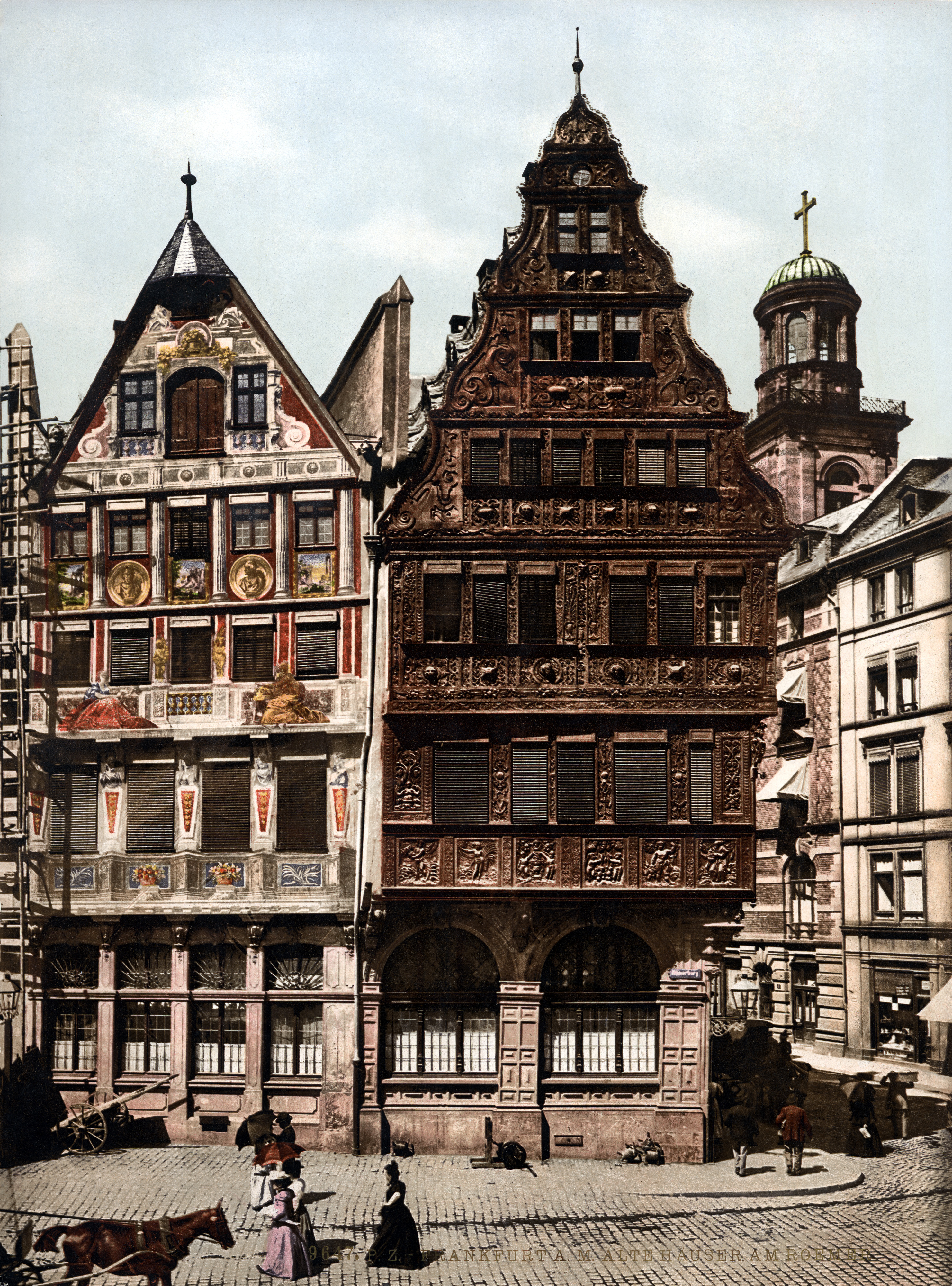 Frankfurt on the Main: House Frauenstein (to the left) and Salt House (to the right) at the Roemerberg, polychromatic asphalt-photolithography (Photochrom)